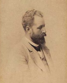 Niels Pedersen Mols (1859-1921), Danish painter of landscapes and animals